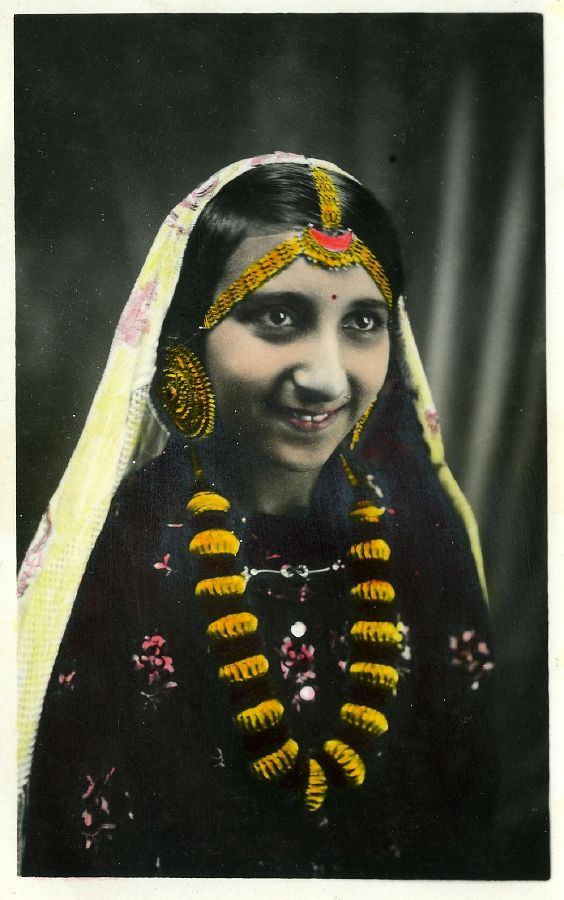 Nepali woman at 1900s